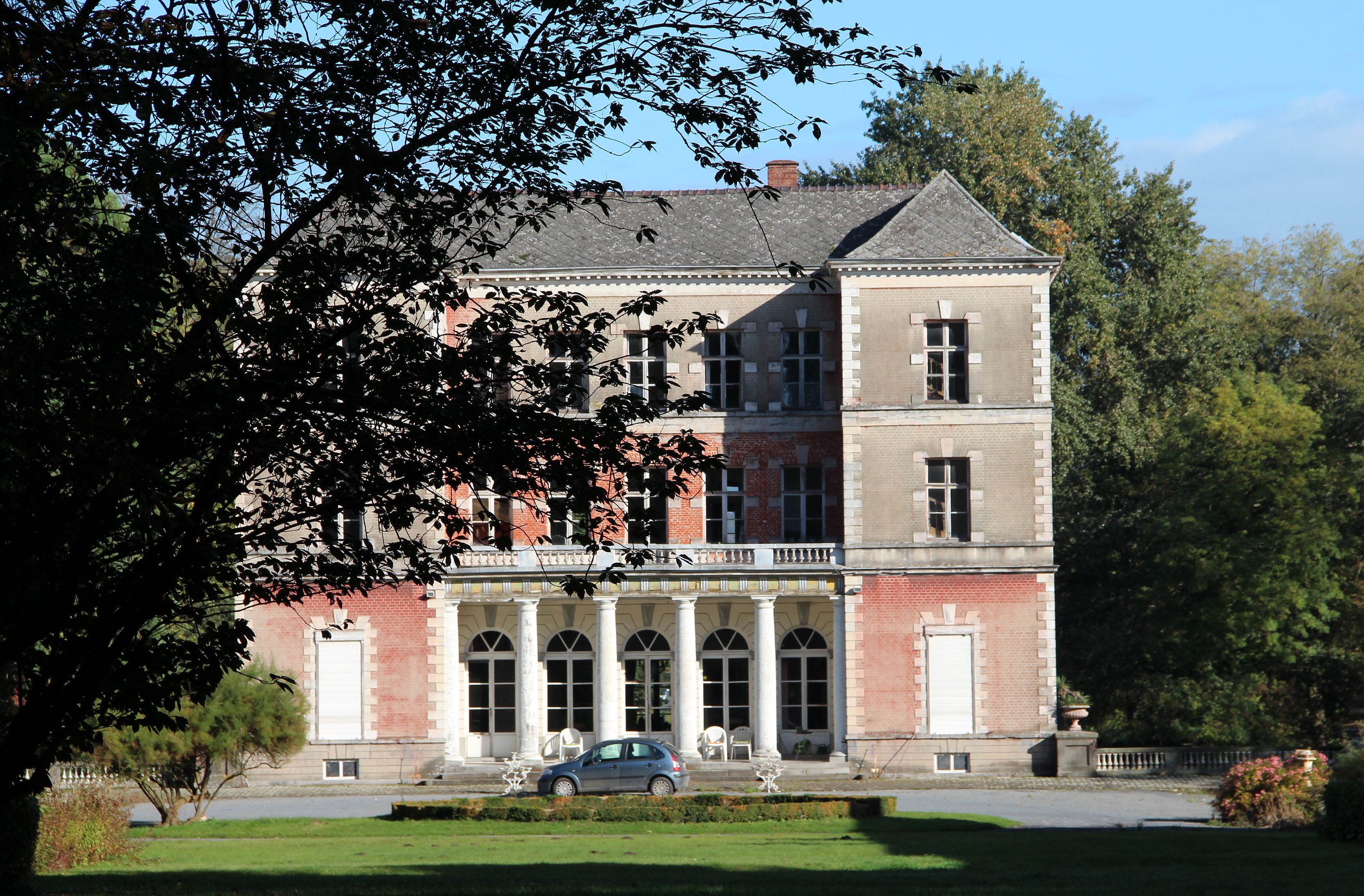 Froyennes (Belgium), the Beaureard castle (1796).